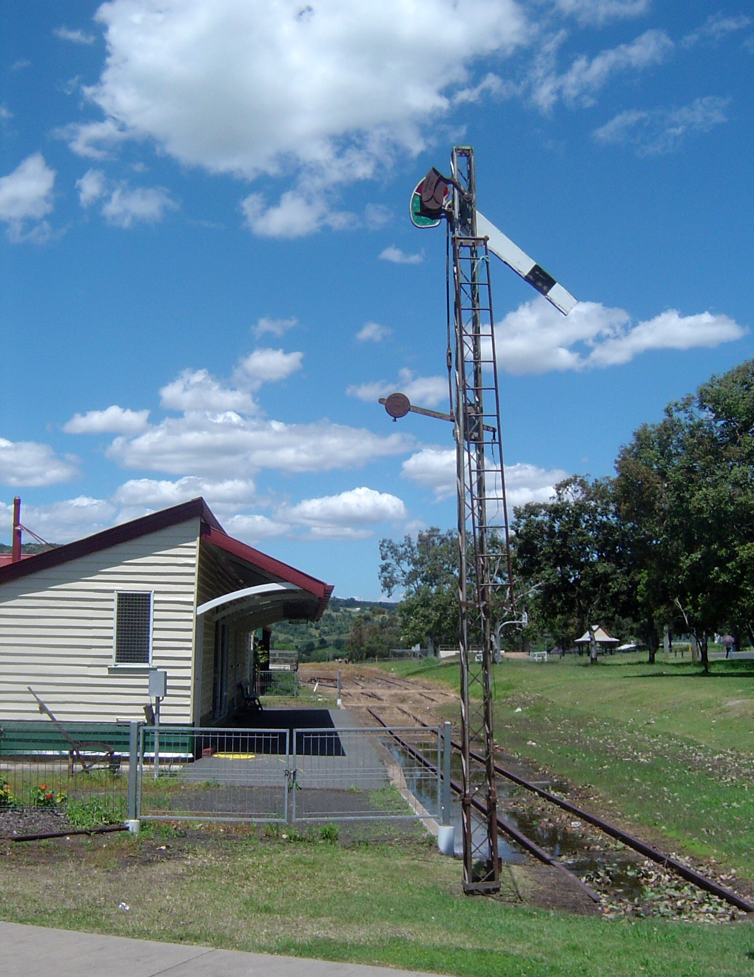 Photo of Lowood railway station on the abandoned Brisbane Valley railway line, Queensland.